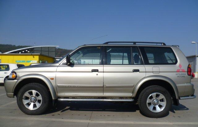 Mitsubishi Pajero Sport (2002 model)